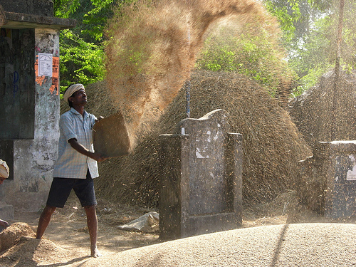 Man husking rice by throwing it into the air. Tamil Nadu, Inda